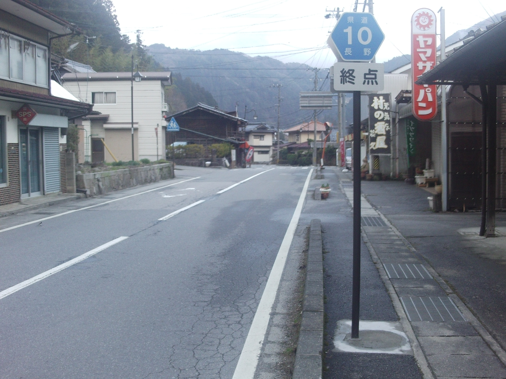 The Nagano Prefectural Road Route 10 in Neba Village